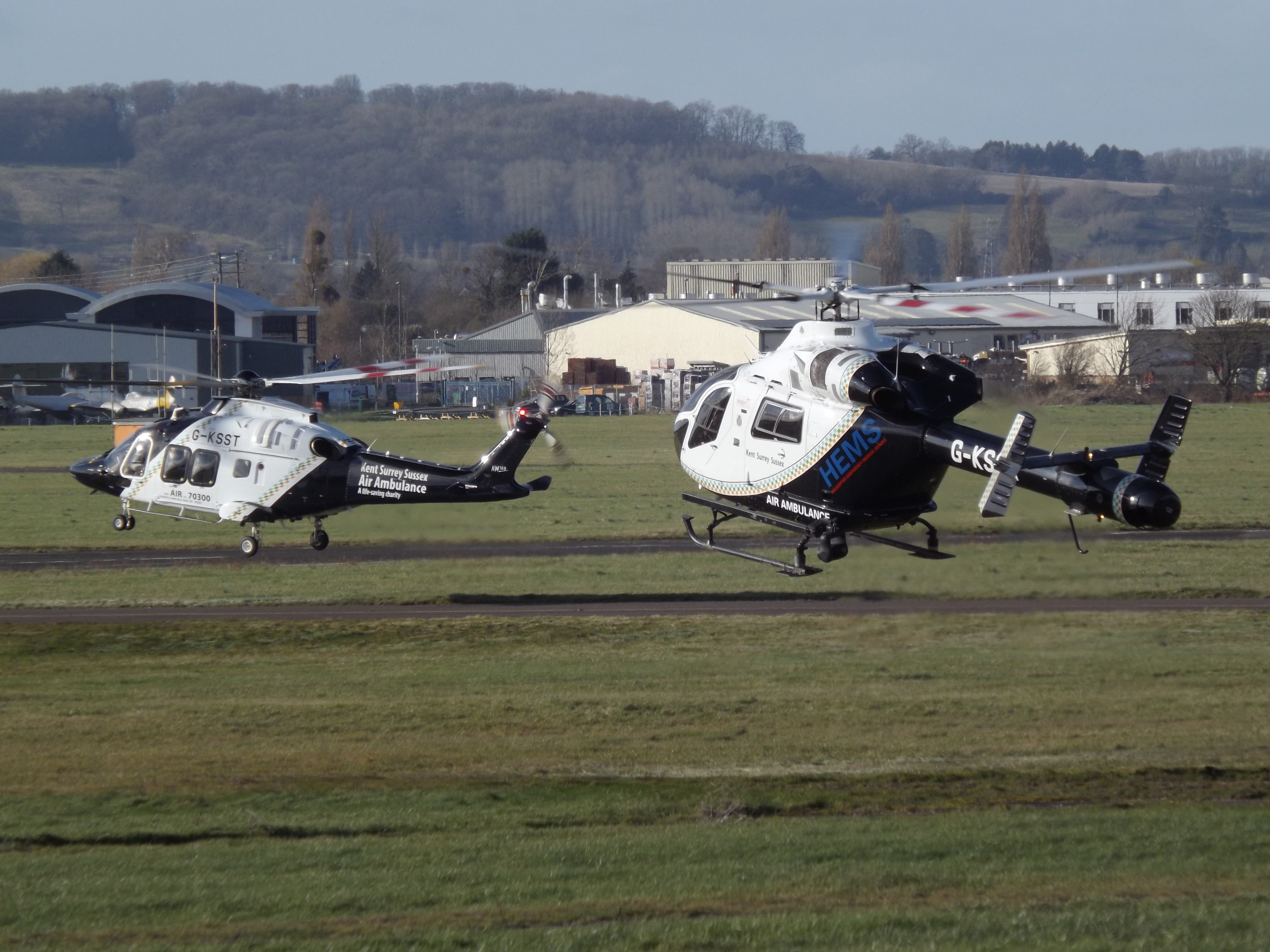 At Gloucestershire Airport.